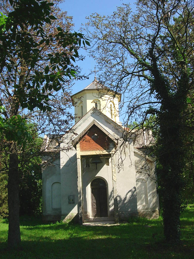 The Orthodox church in Miletićevo.